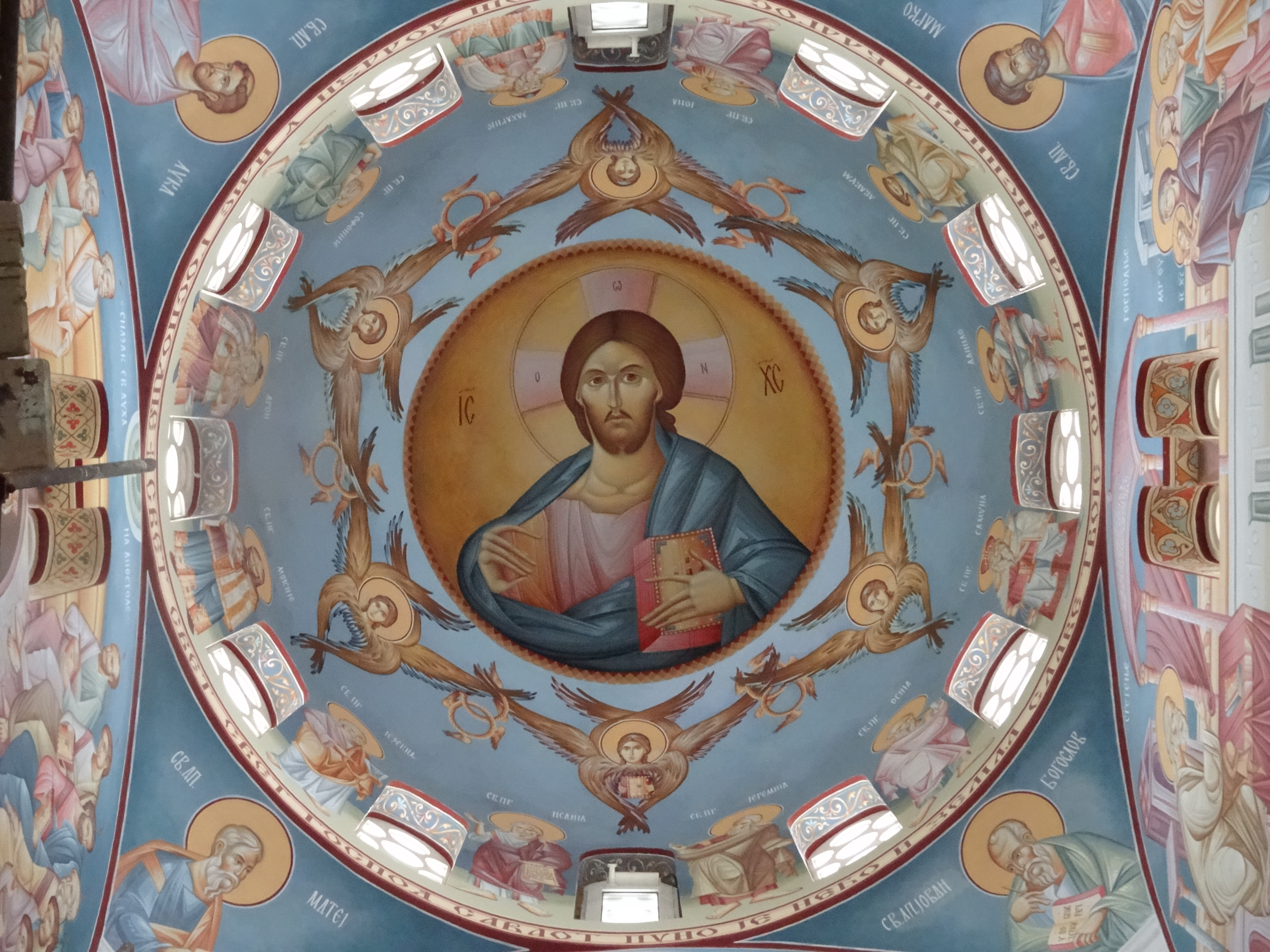 Ćelije Monastery is an orthodox monastery located near Valjevo.